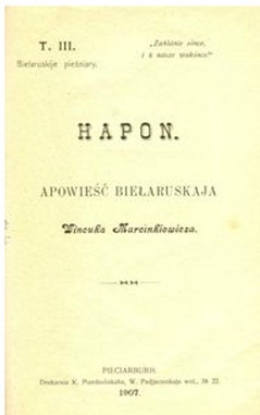 Vintsent Dunin-Martsinkyevich. "Гапон"